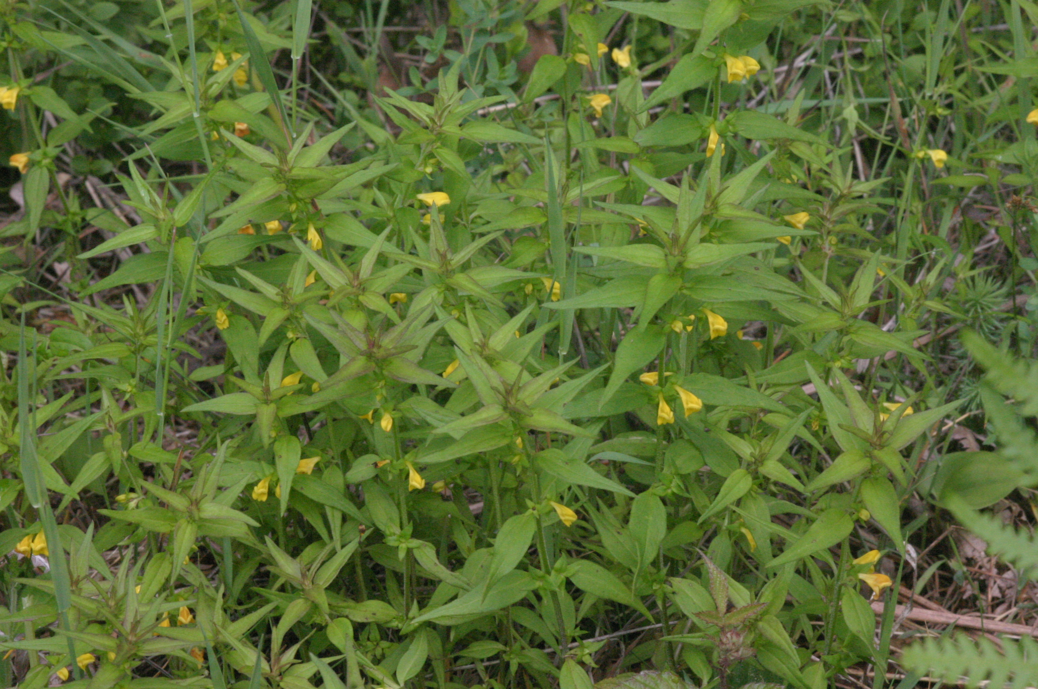 Melampyrum sylvaticum